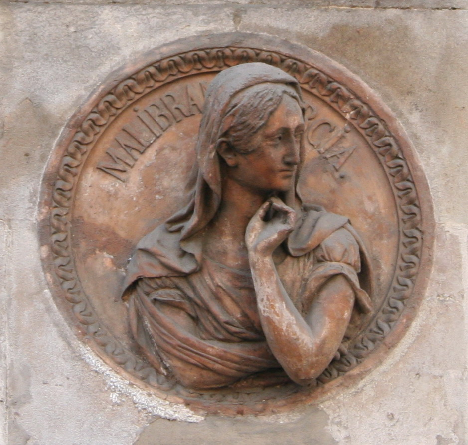 Maria Malibran in the façada of Teatre Principal, Barcelona. Built in 1847 by architect Francesc Daniel Molina i Casamajó.